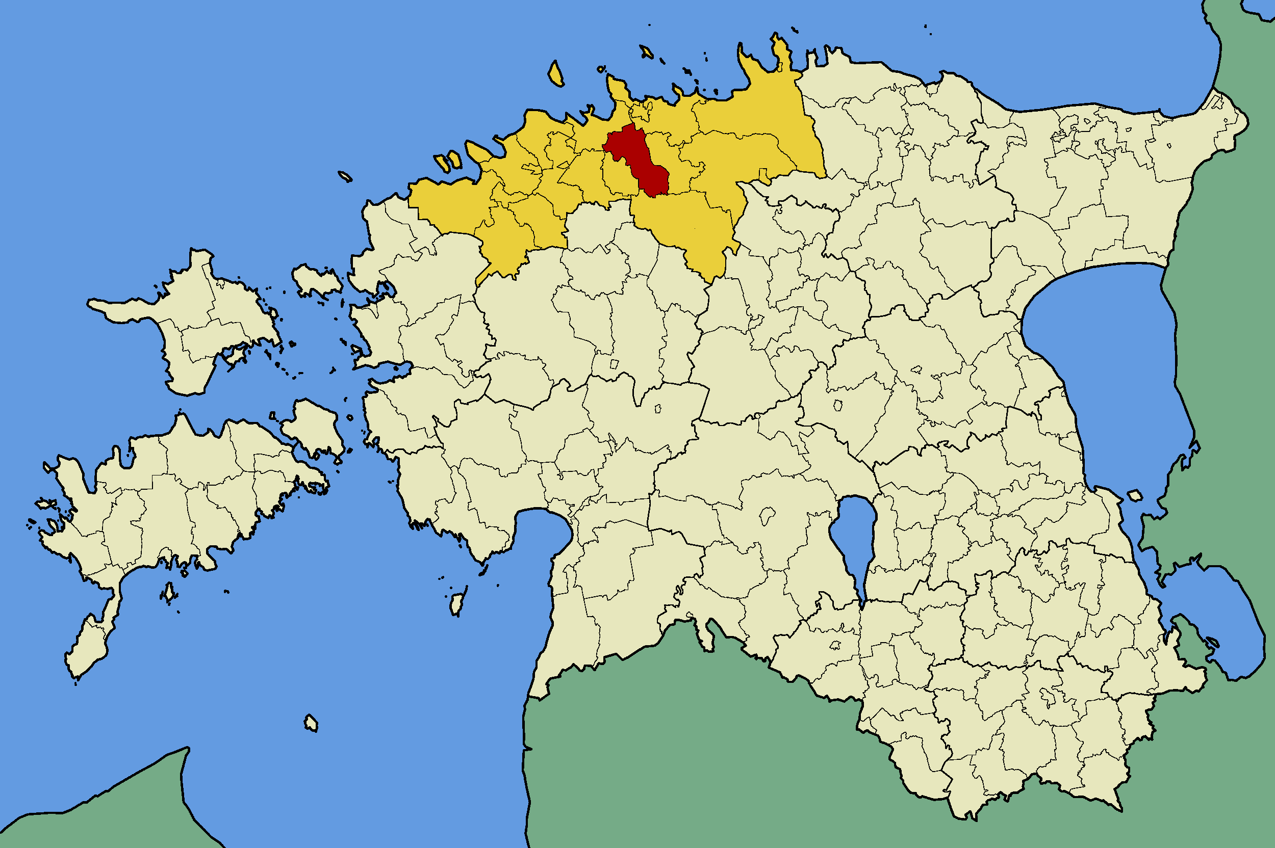 Map of Estonia with borders of municipalities (parishes). Harju county and Rae municipality (parish) emphasized.